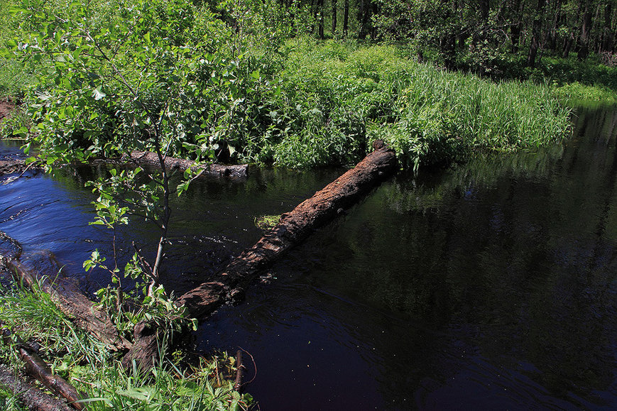 Lipsha River, Mari El